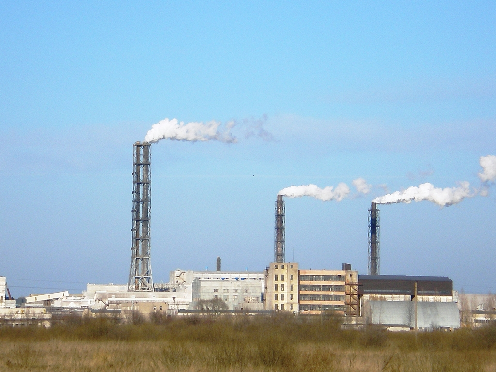 AB "Lifosa" chemical factory in Kedainiai